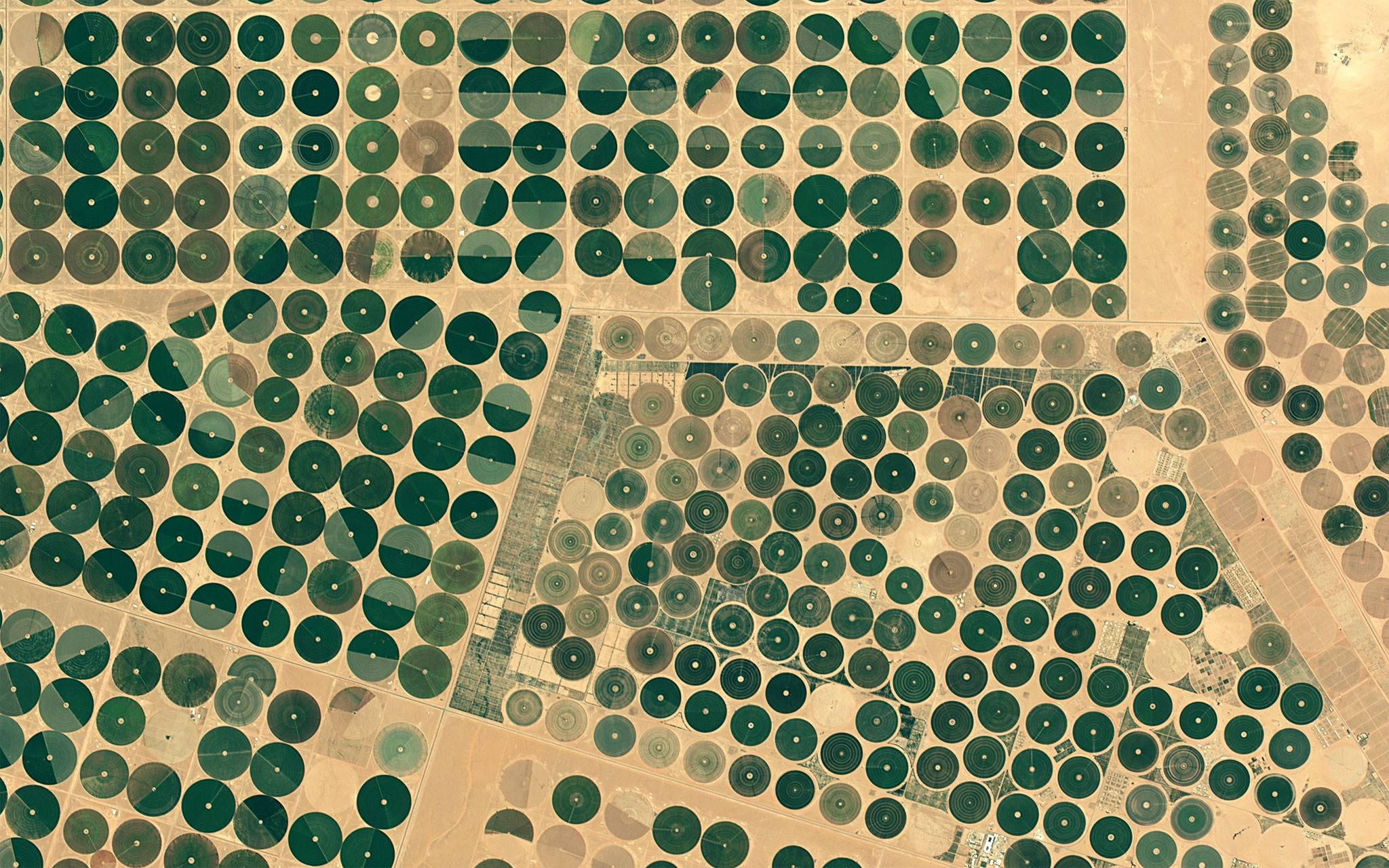 Circular irrigations in Al Jawf Region, Saudi Arabia, as viewed by Hodoyoshi-1 satellite.